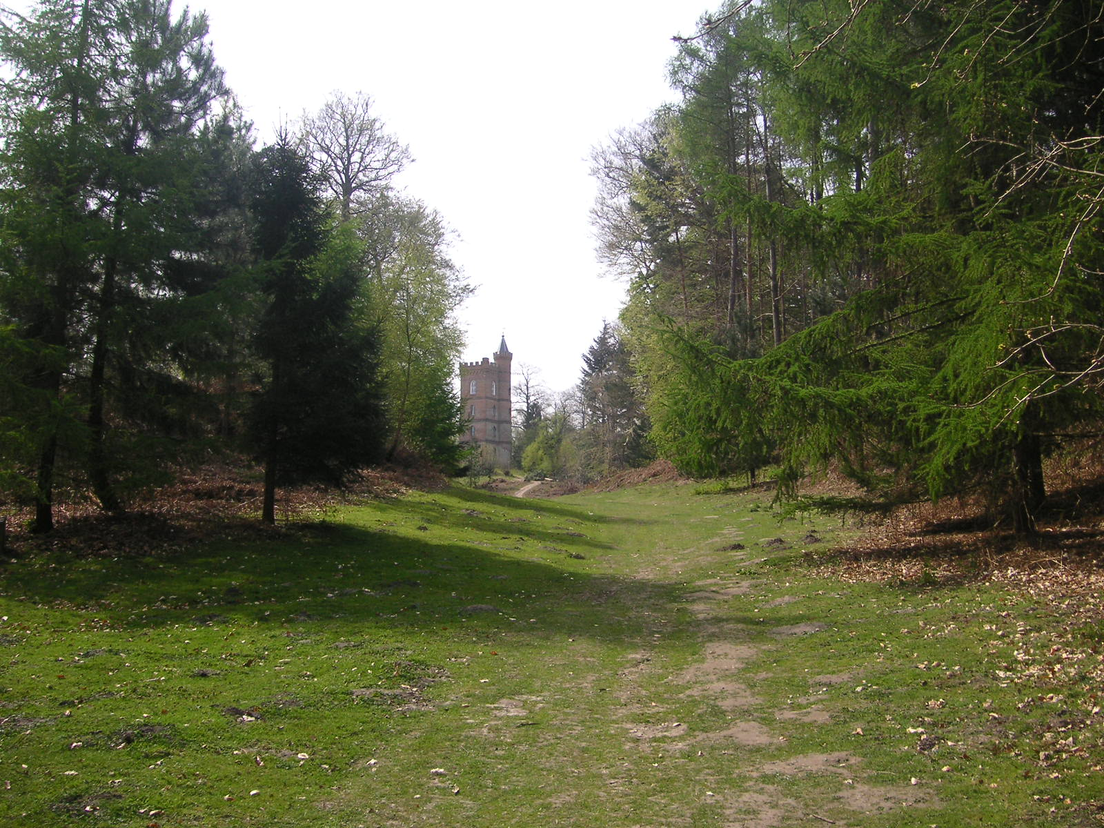 Painshill Park, Surrey, England. An 18th century landscape garden designed by Charles Hamilton MP. The "Alpine Valley" and "Gothic Tower".